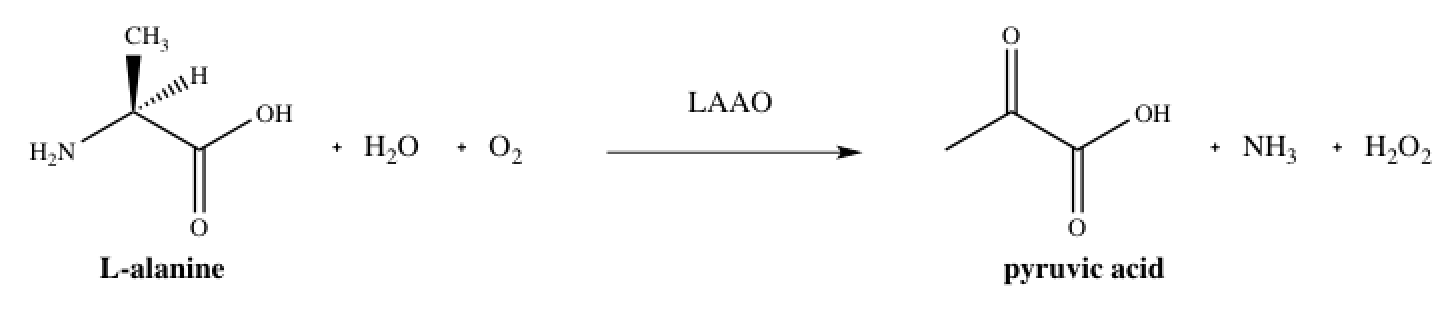 Reaction of L-alanine with an L-amino acid oxidase